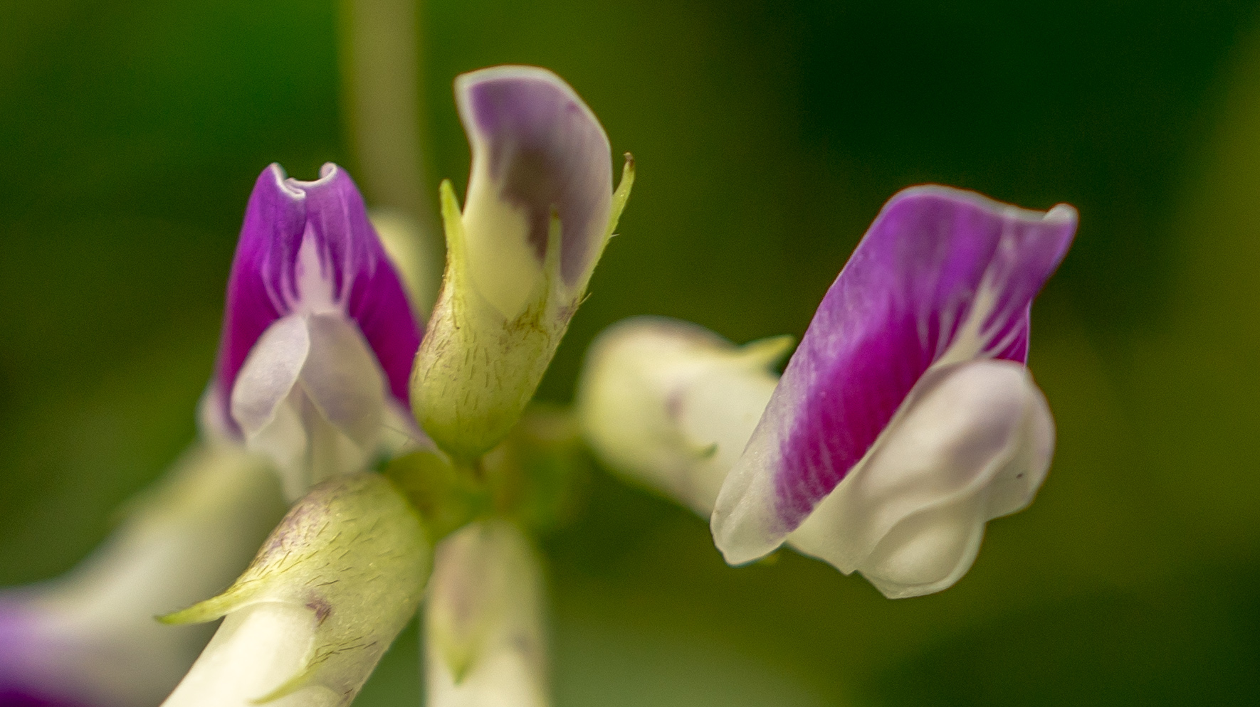 Amphicarpaea bracteata subsp. edgeworthii var. japonica